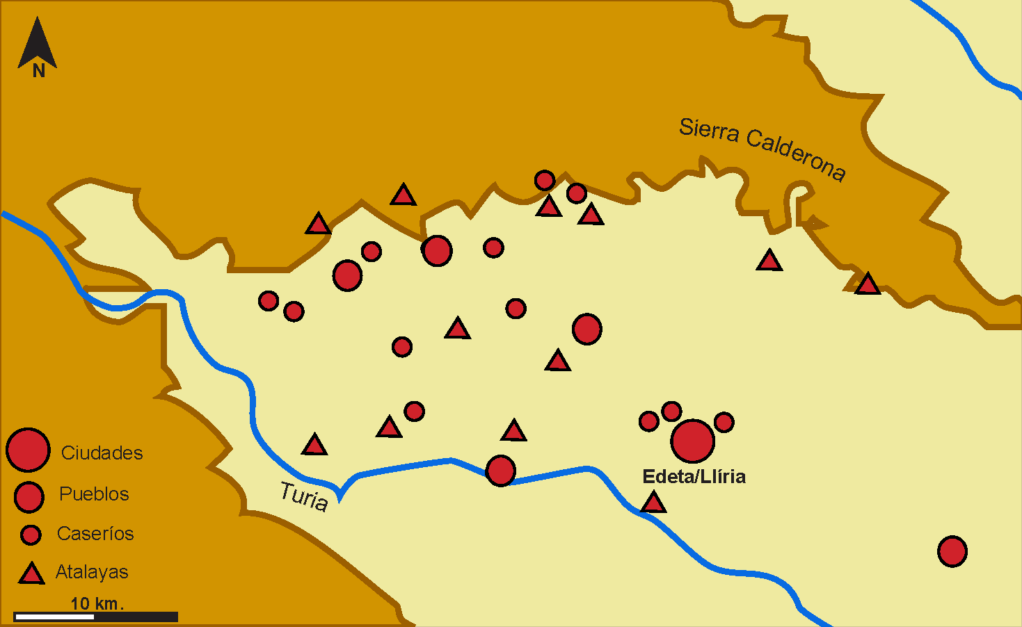 The Turia Valley during the Middle Iberian (IV-III cent.b.C.)